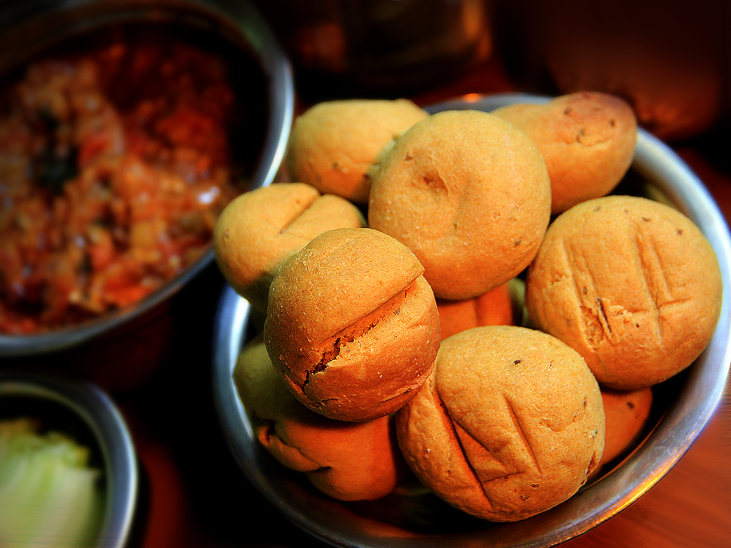 Dal-Bati Choorma This devine combination of simple stuff makes it different from other meals. Daal- Baati(made from Wheat floor), Choorma laddoo(made from baati, sugar and dry fruits),Baigan(egg plant/ brinjal and other spices) ka bhurta, Raita or Kadhi(buttermilk), chatni(generally Pudina/ mint) are mainly served together. Ghee is poured onto the bati after crushing it.This cuisine is from Rajasthan and also popular in Madhya Pradesh(mainly in Nimar and Malwa region).